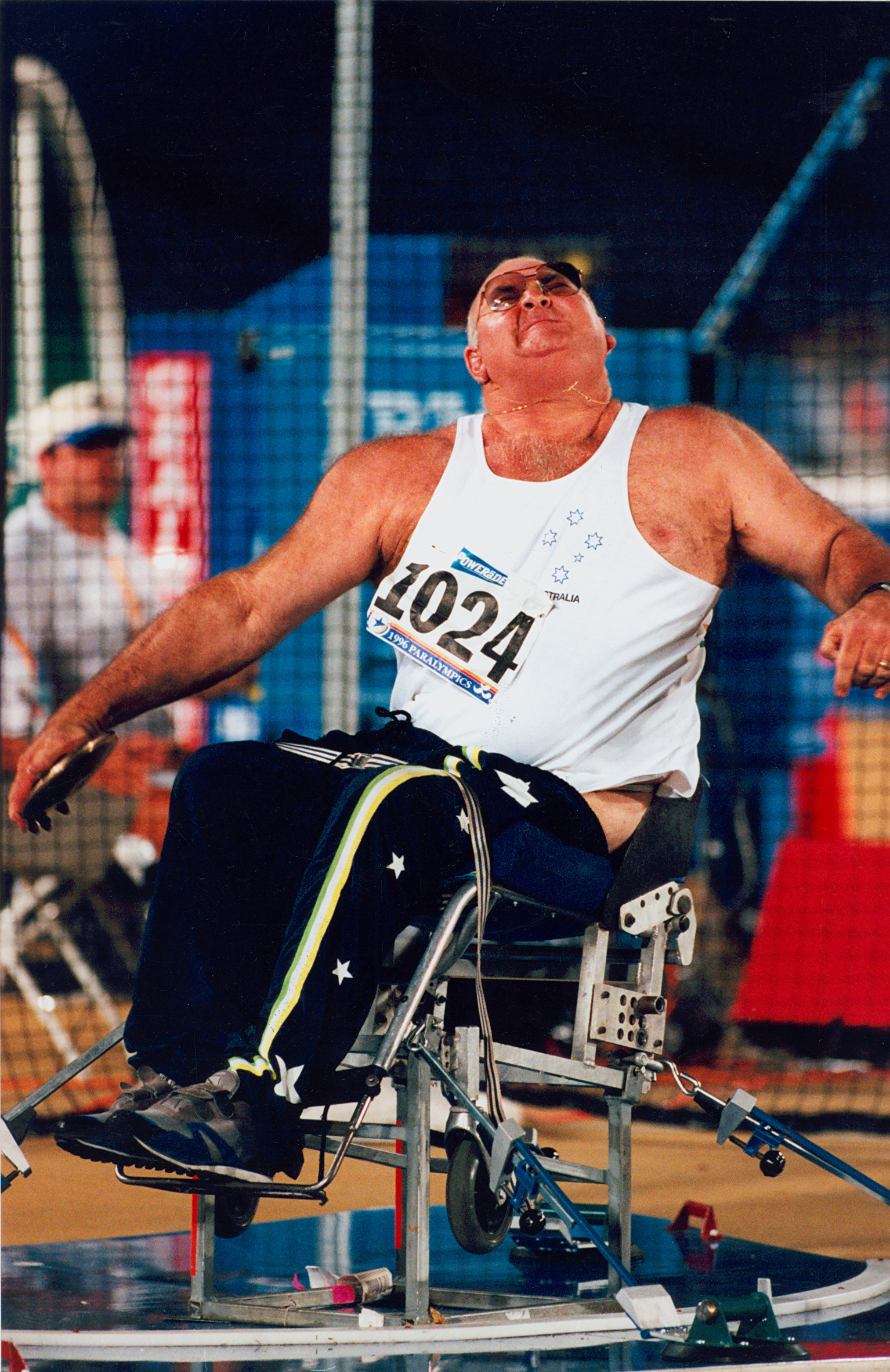 Australian athlete Terry Giddy (New South Wales) competes in the F55 seated discus throw event at the 1996 Atlanta Paralympic Games in which he finished fourth